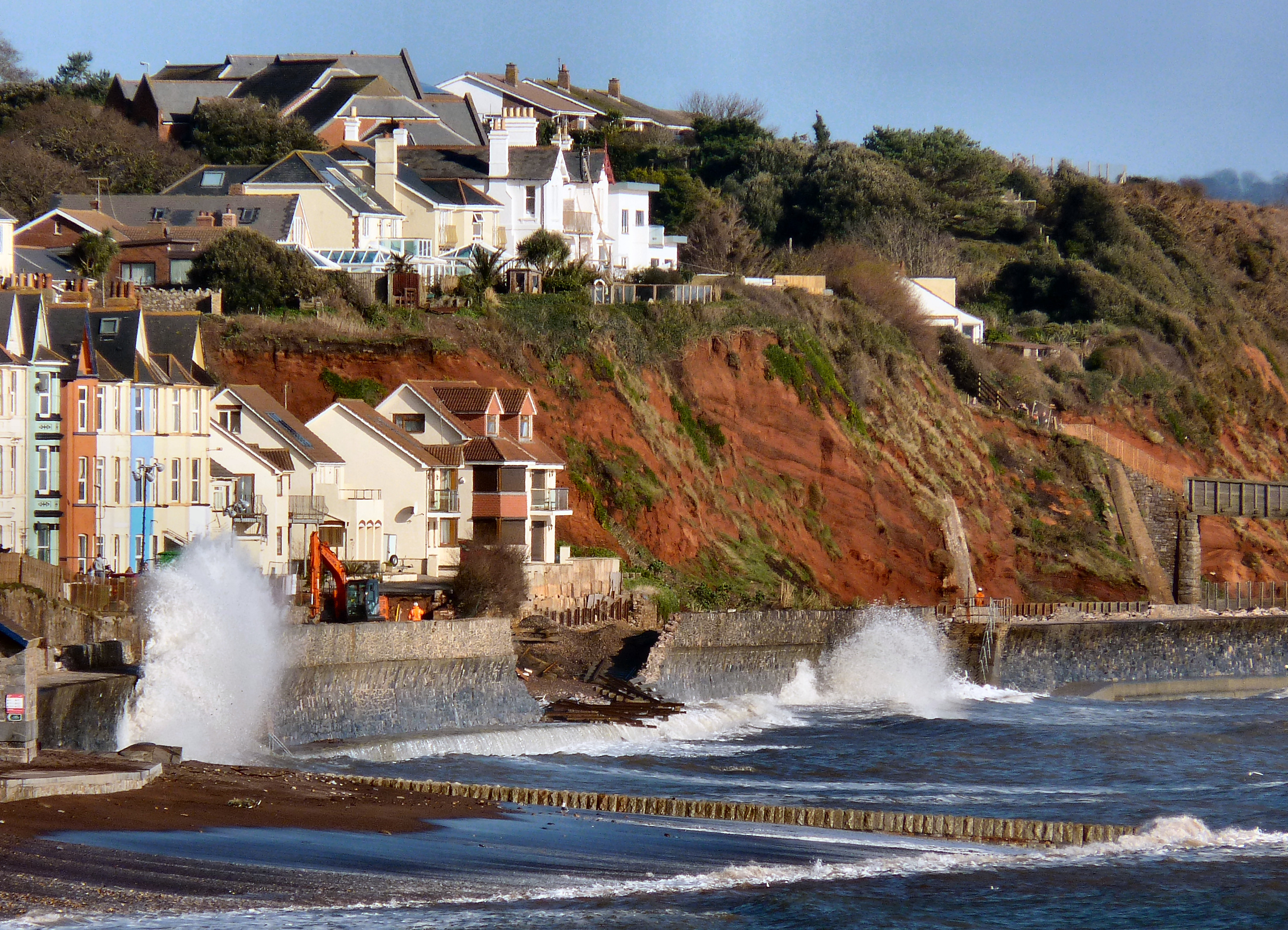 The breach in the South Devon Railway sea wall at Dawlish, Devon, England, February 2014. The damage was caused by gales and high seas on the night of 4 February and the railway track was left hanging over the breach. This photo was taken on 7 February after the track had been cut away: the cut sections with sleepers still attached can be seen lying in the gap.